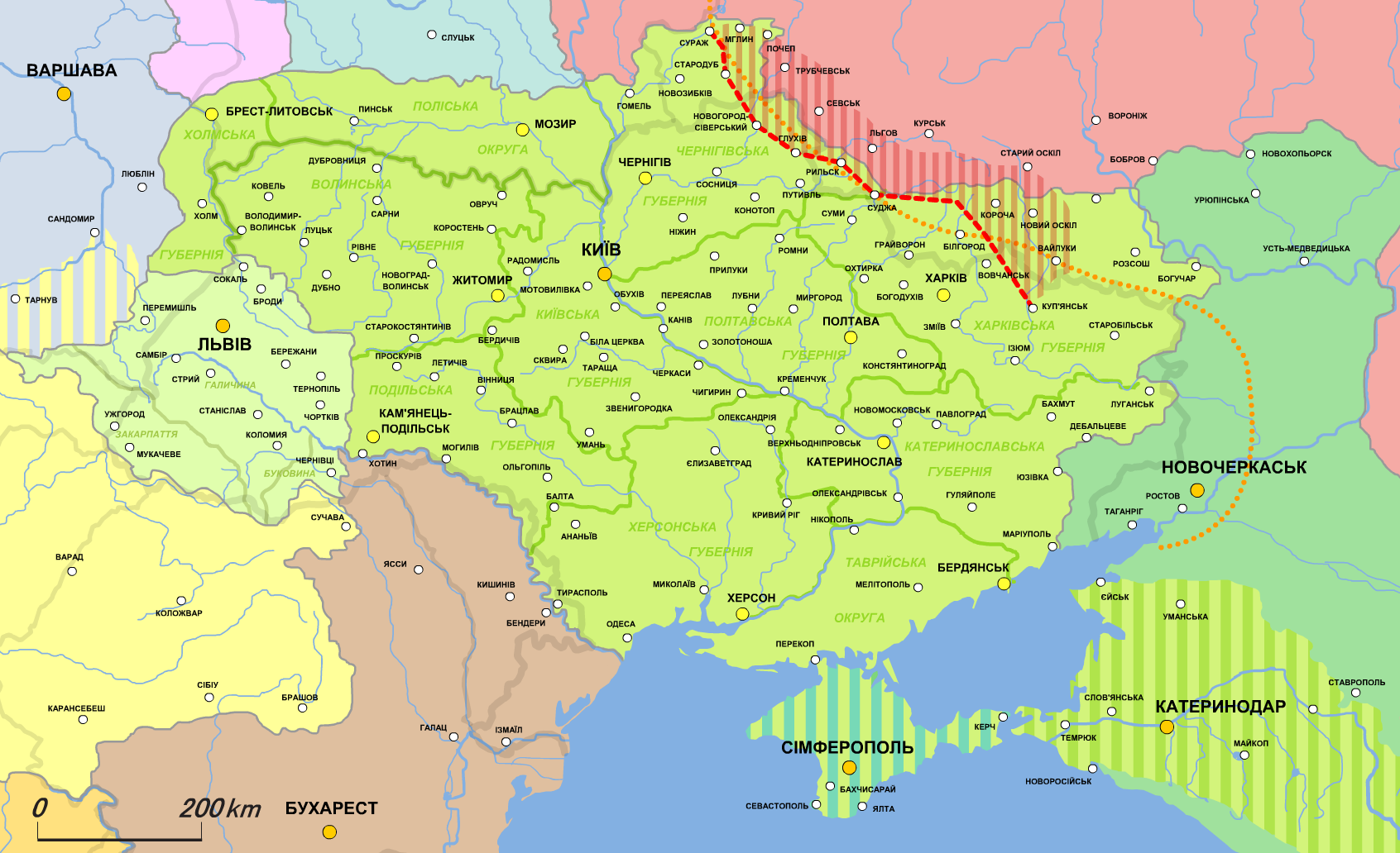 Map of the Ukrainian State (1918.V-XI) Ukrainian State West Ukrainian People's Republic (from 19.X.1918) Crimean government (planned to join the Ukrainian state as autonomic republic) Kuban People's Republic (planned to join the Ukrainian state as autonomic republic) Don Republic Belarusian People's Republic Lithuania Polish Republic Austria-Hungary Kingdom of Romania Kingdom of Serbia Soviet Russia